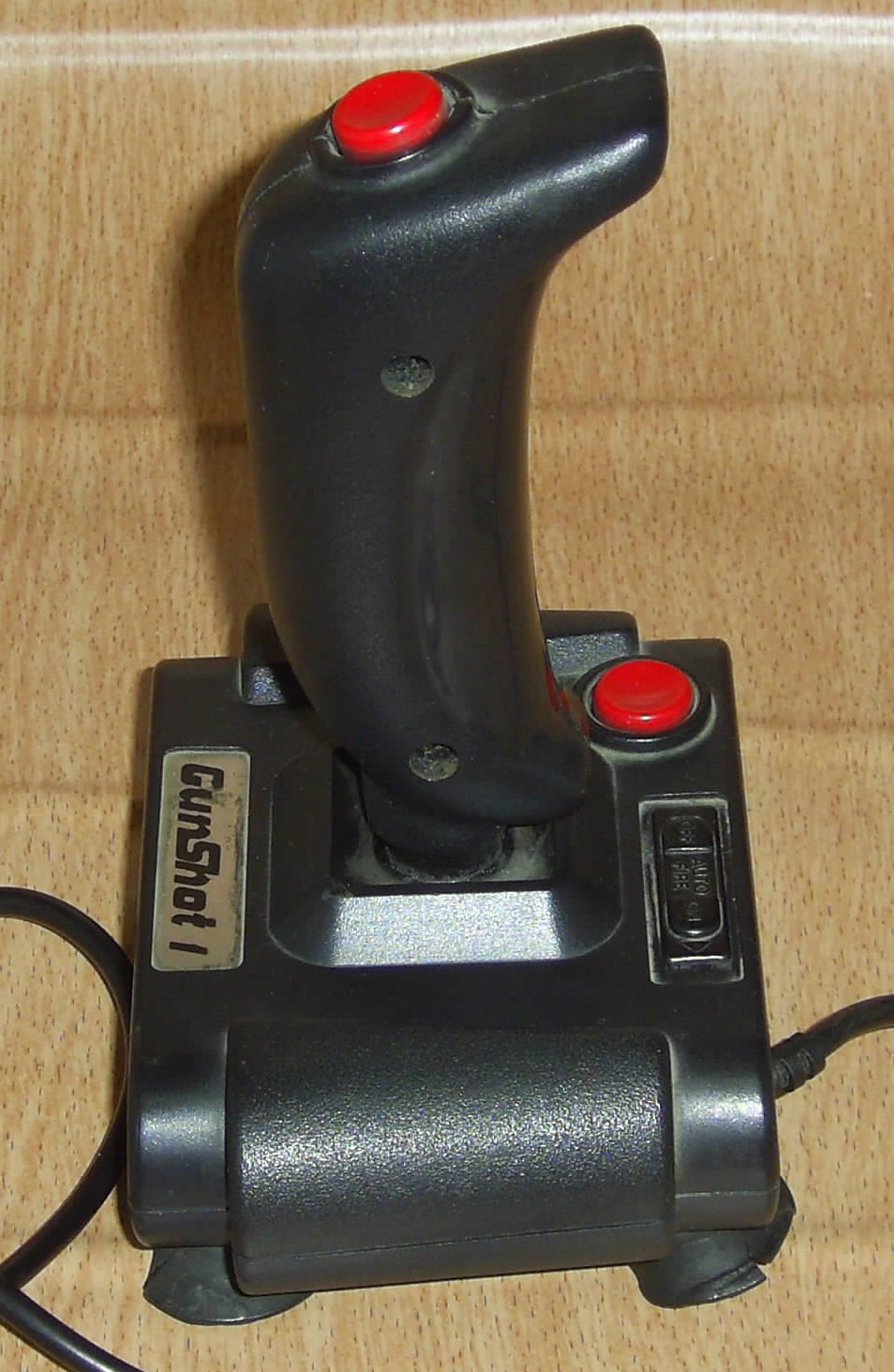 Joystick GunShot I para norma Atari